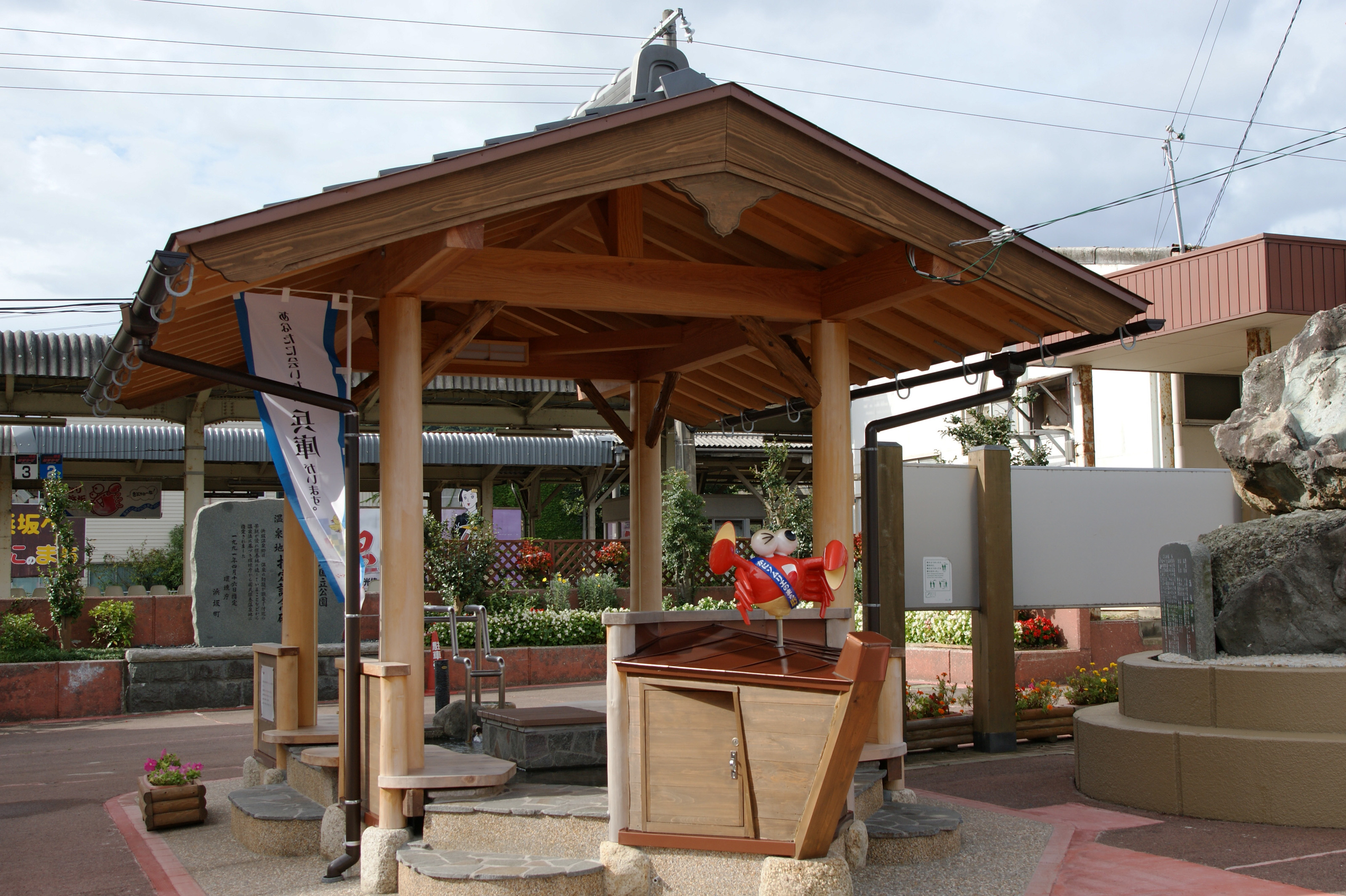 Hamasaka Onsen of Hamasaka Onsenkyo, Shinonsen, Hyogo prefecture, Japan